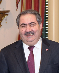 Iraqi Foreign Minister Hoshyar Zebari at the U.S. Department of State in Washington, D.C., on December 12, 2011. [State Department photo/ Public Domain]